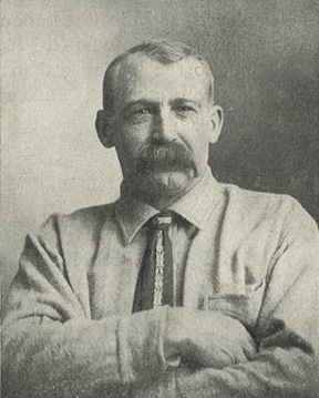 Western writer Andy Adams (1859-1936)